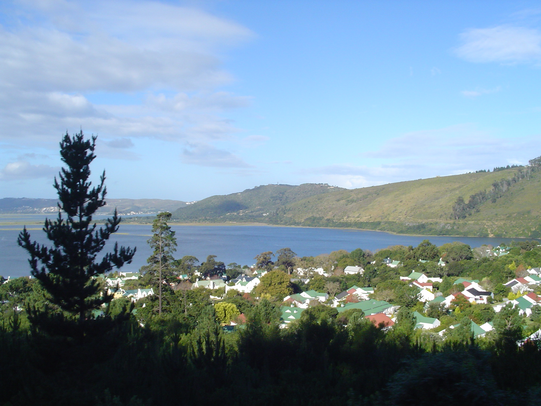 Knysna in the Western Cape Province of South Africa from a train